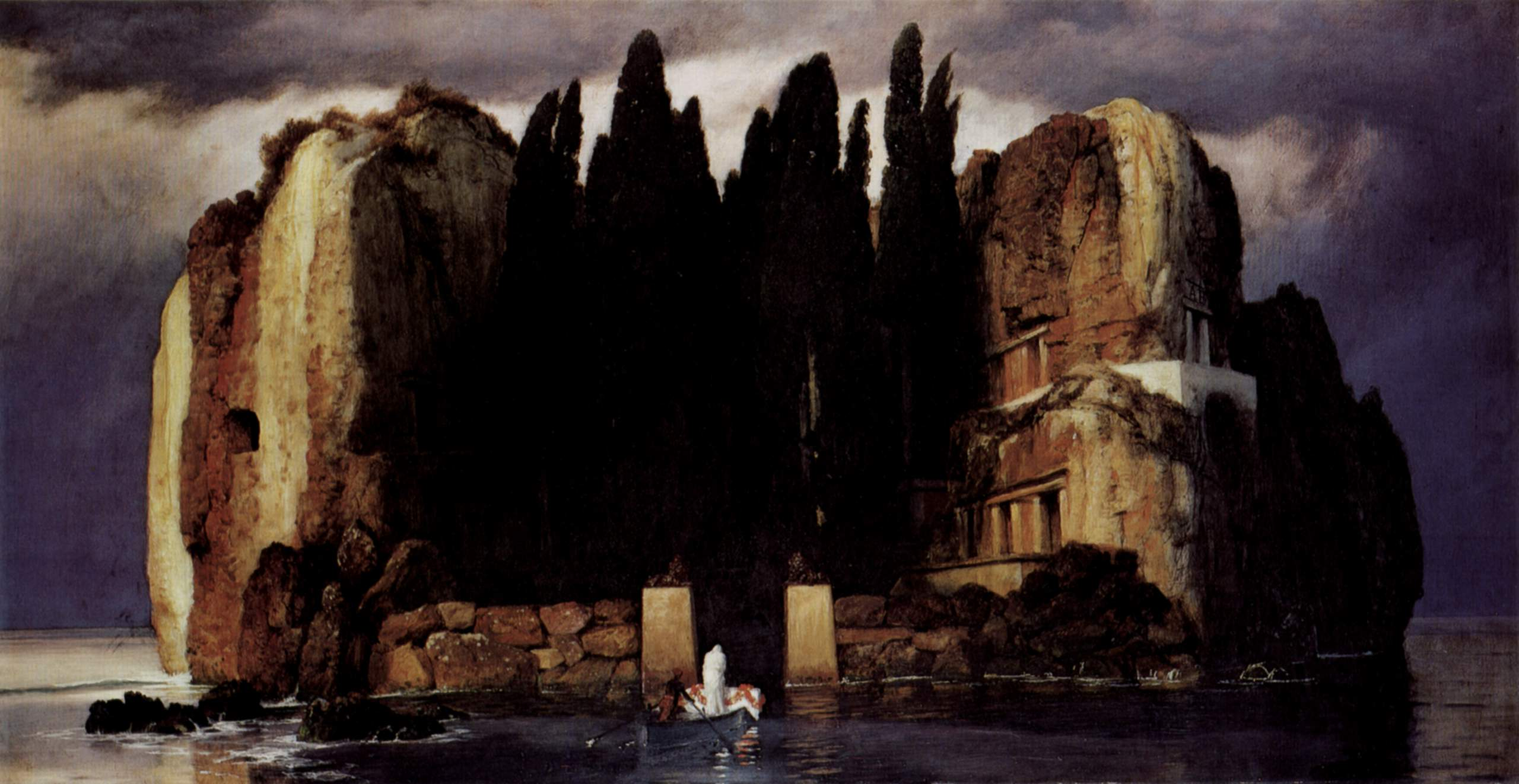 5th version